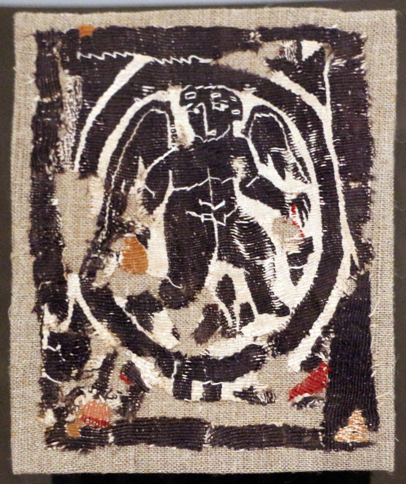 Textiles in the Museu Nacional de Arte Antiga